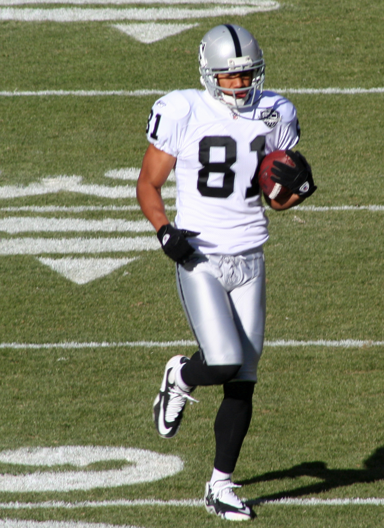 Chaz Schilens, a player on the Oakland Raiders American football team.